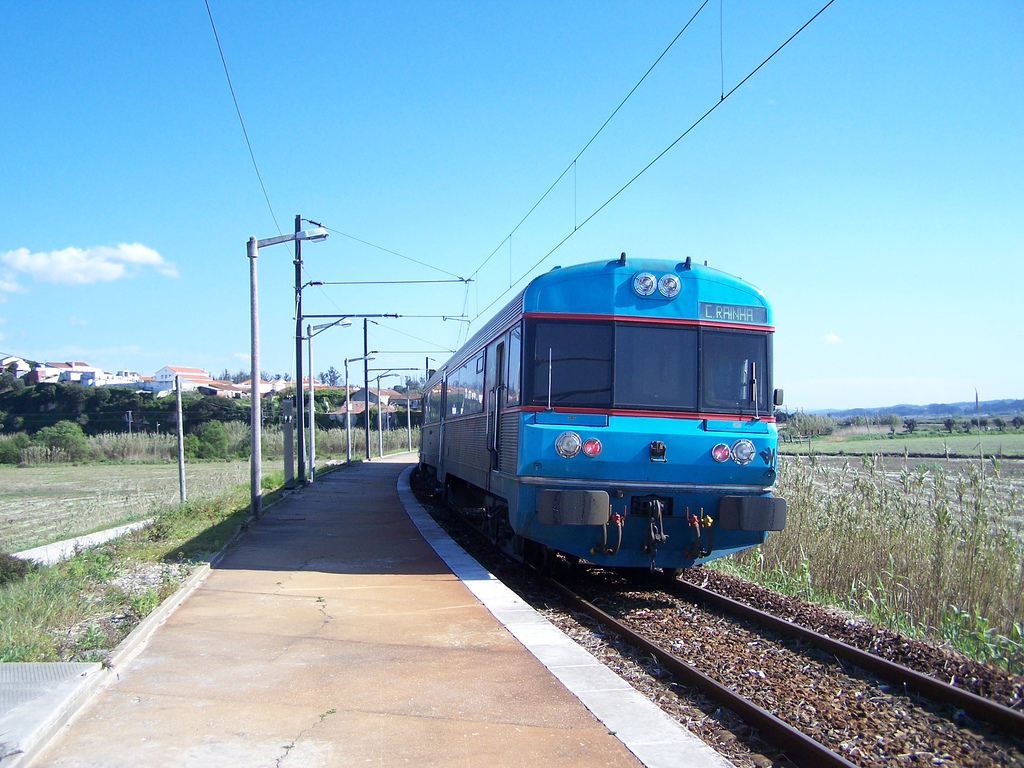 The portuguese diesel regional train type 0450 at Bifurcação de Lares, Linha do Oeste.